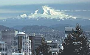 Mount Hood from Portland, Oregon